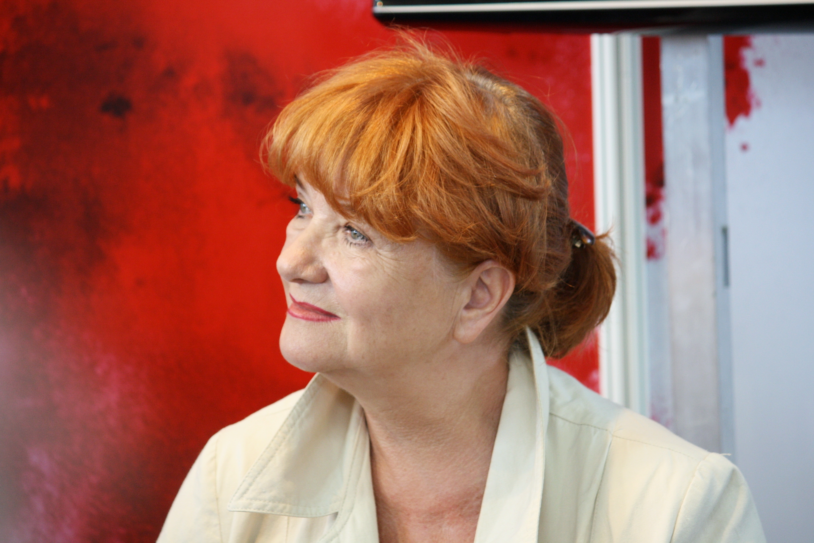 Česky: Svět knihy 2013 - Carmen Mayerová Personality rights warning This work depicts one or more identifiable persons. The use of depictions of living or deceased persons may be restricted by laws regarding personality rights. The extent of these restrictions depends on jurisdiction. Personality rights restrictions apply independently of copyright. Before using this content, please ensure that the intended use does not infringe any personality rights under applicable laws. You are solely responsible for ensuring that you do not infringe someone else's personality rights. See our general disclaimer.